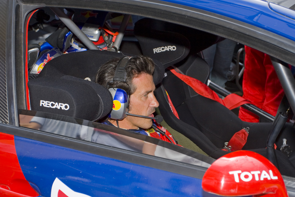 Marc Martí at the 2008 Rallye Deutschland as co-driver to Dani Sordo.